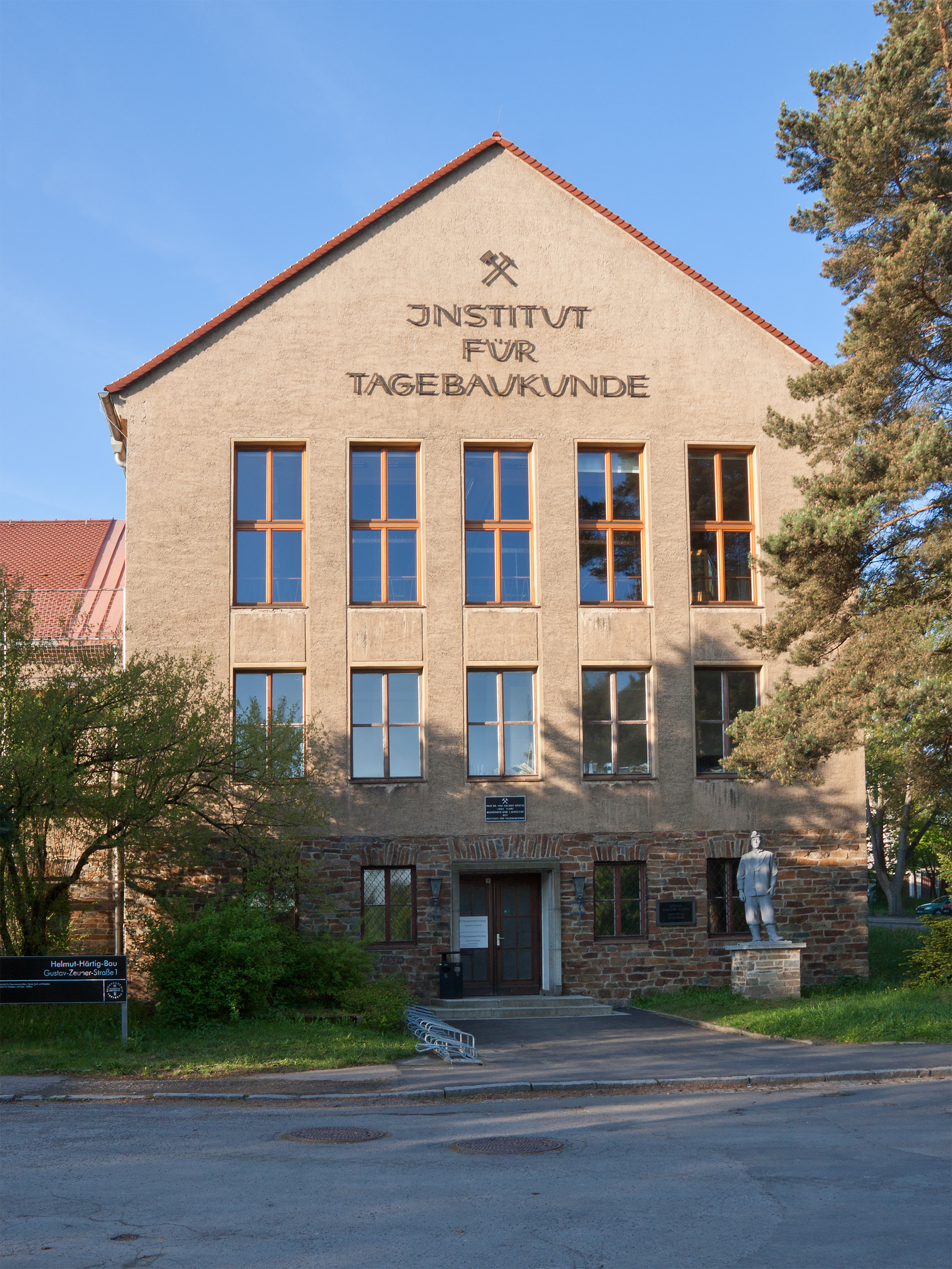 Freiberg, Saxony, Institute for Open-Pit Mining belonging to the TU Bergakademie Freiberg